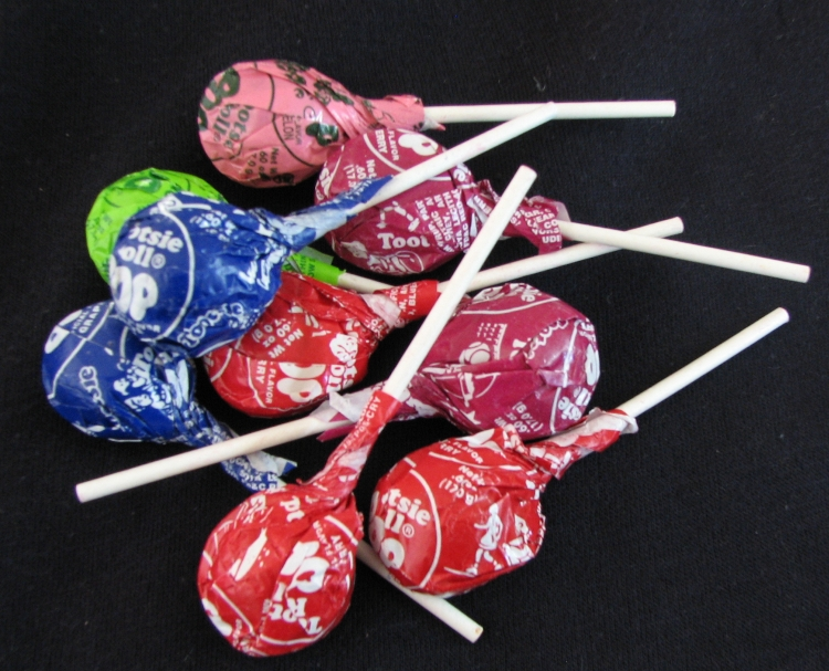 Tootsie Pops.